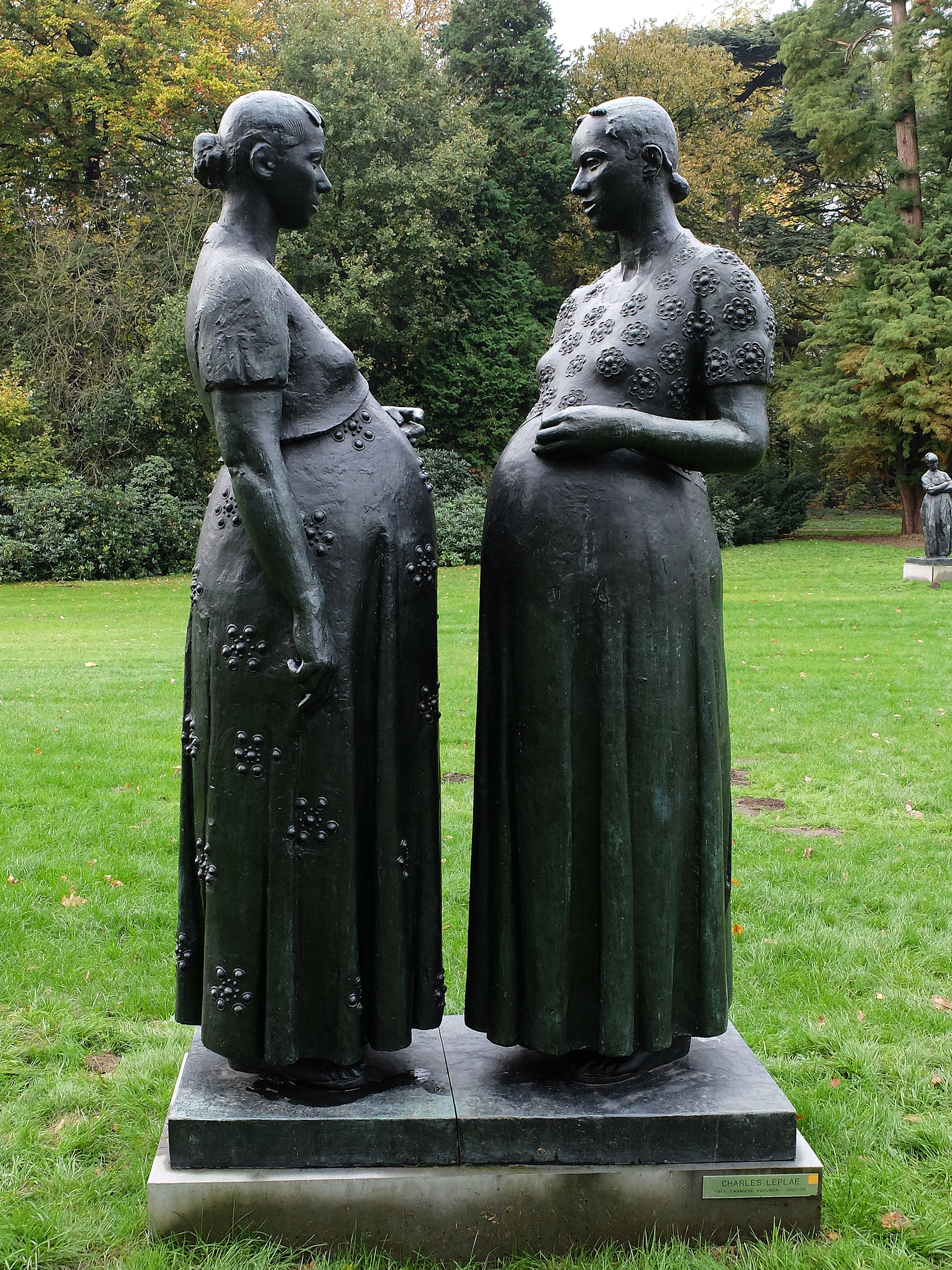 Charles Leplae: Two pregnant women, 1953